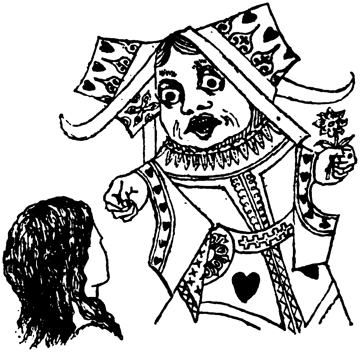 Illustration from page 88